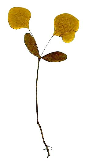 Berberis thunbergii seedling